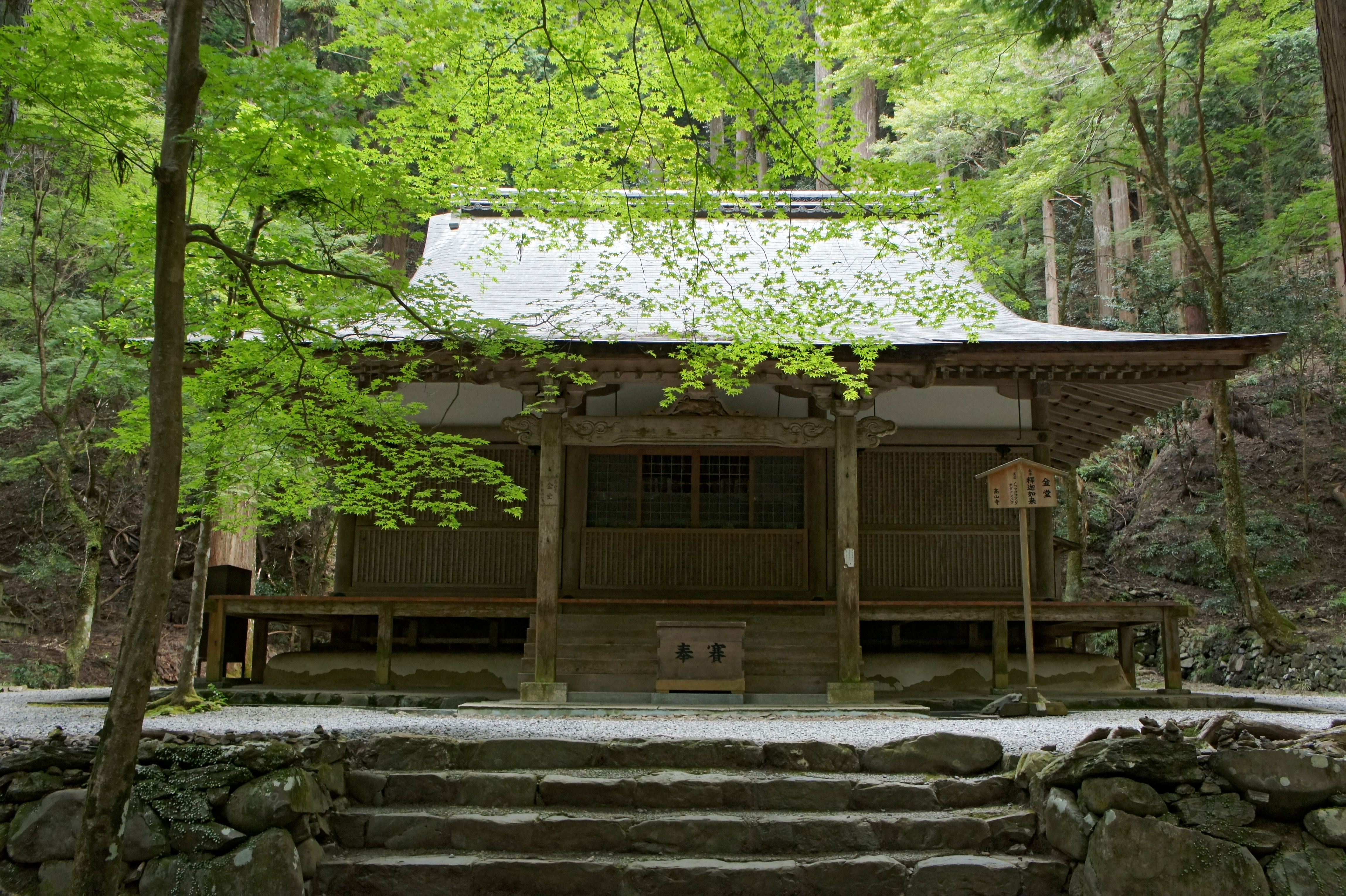 Kōzan-ji in Kita-ku, Kyoto, Kyoto Prefecture, Japan. It was registered as part of the UNESCO World Heritage Site "Historic monuments of ancient Kyoto".